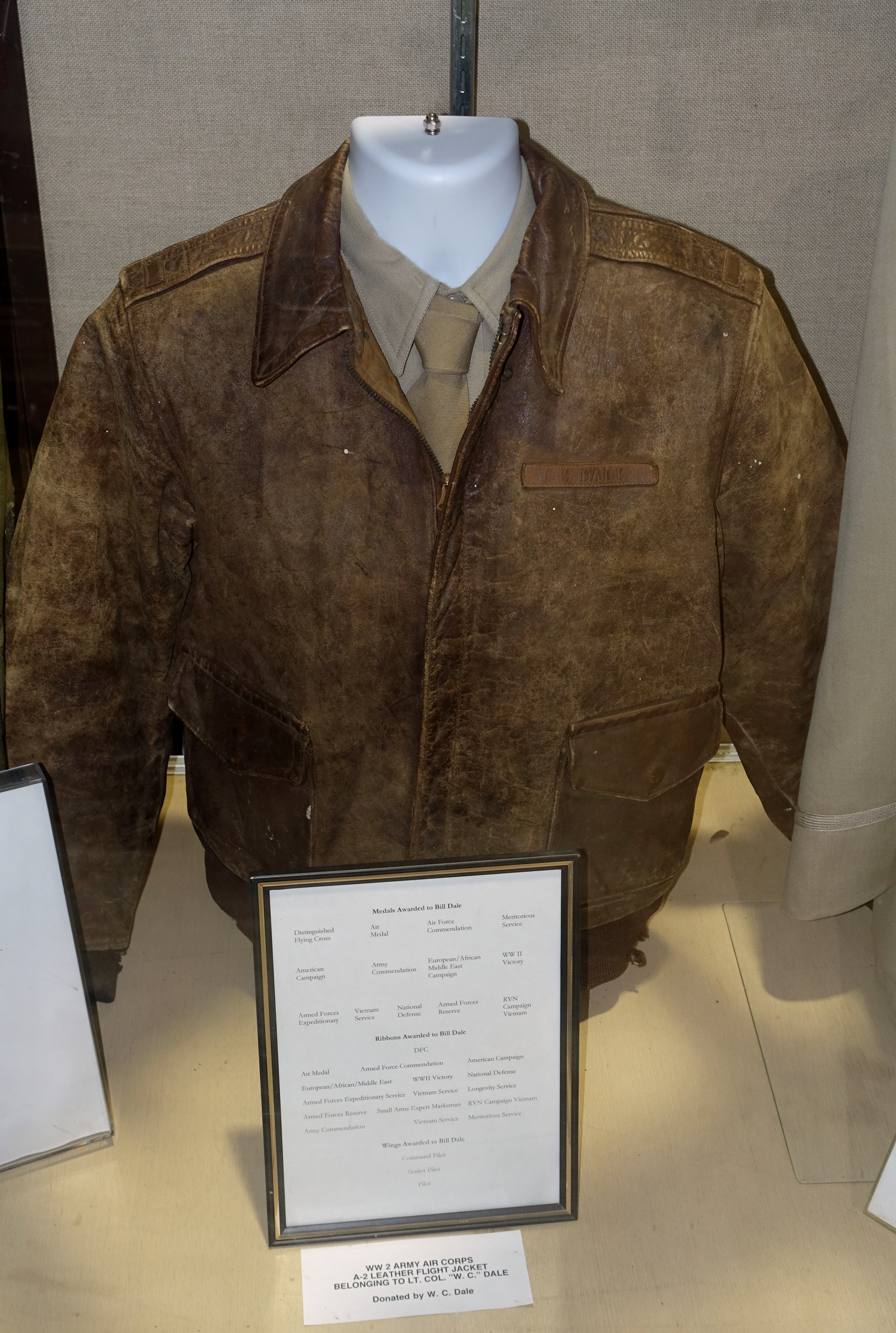 Exhibit in the Oregon Air and Space Museum - Eugene, Oregon, USA.